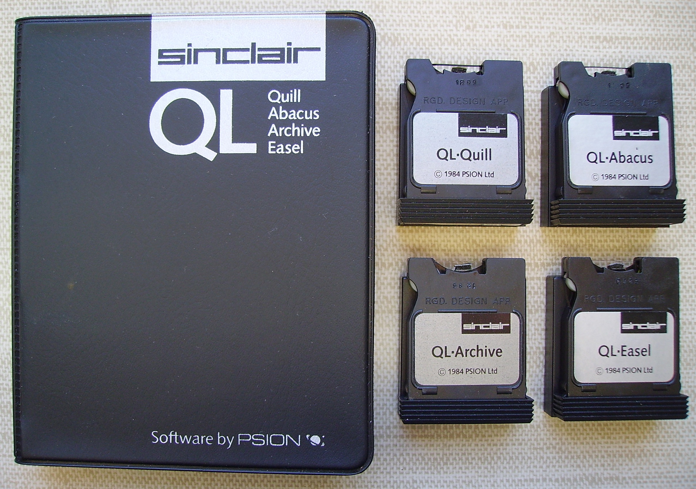 Case containing Psion software supplied with Sinclair QL: 4 Microdrive cartridges (the protective cover was removed to show the tape).